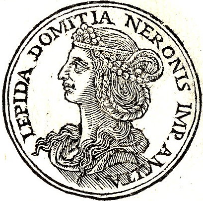 Domitia Lepida Major was the oldest child of Antonia Major and Lucius Domitius Ahenobarbus (consul 16 BC).